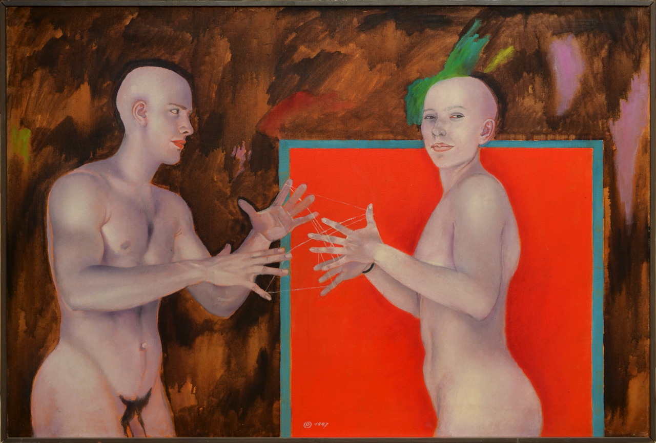 Petra Oriešková, Play, oil on canvas, 1997